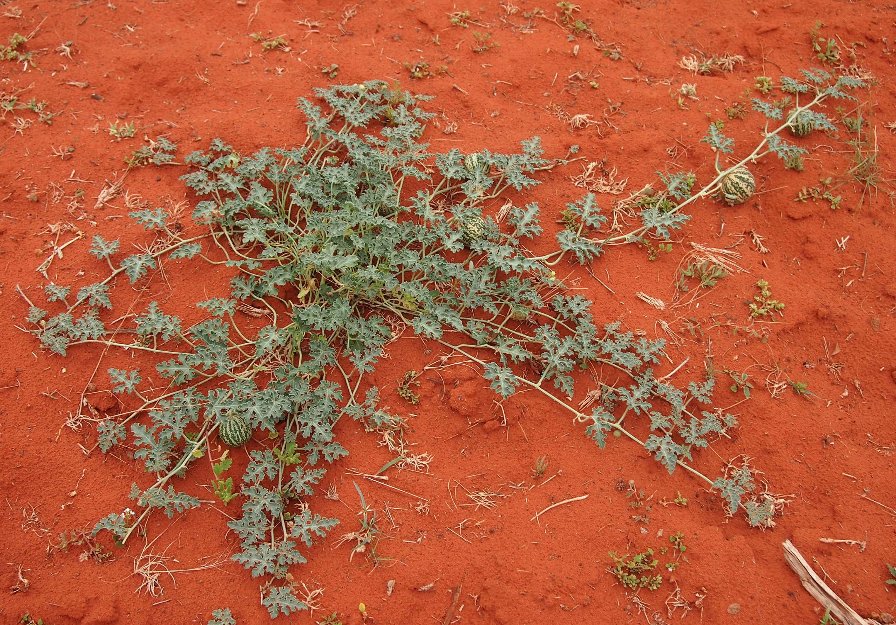 'Citrullus colocynthis habit